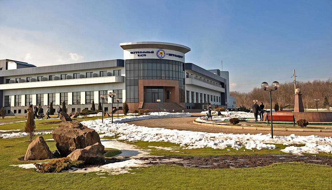 Metalurh Training Centre in Donetsk, Ukraine